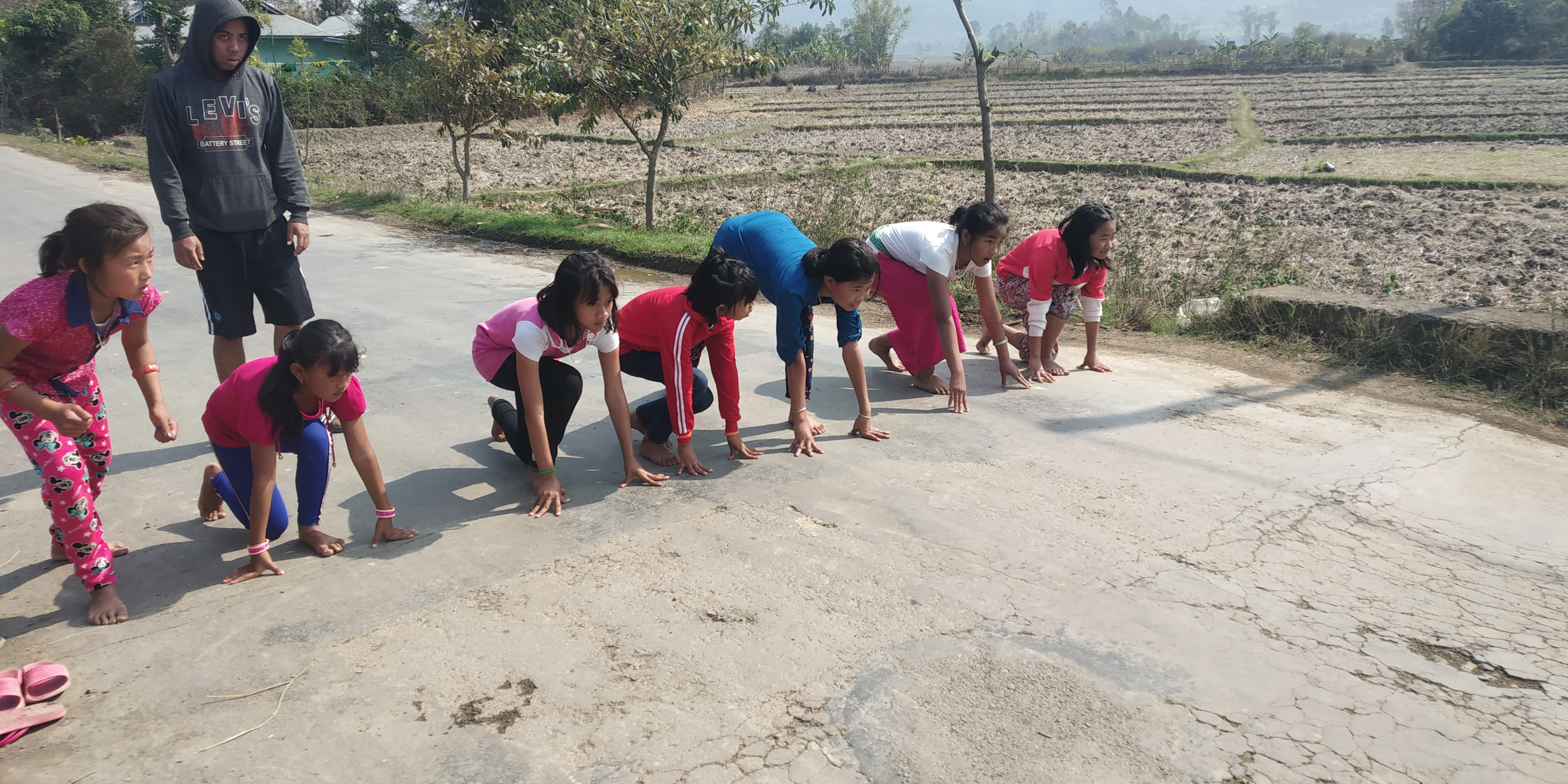 2019 Yaoshang 200 m RACE FOR MINI GIRLS IN CHAJING KHUNOU